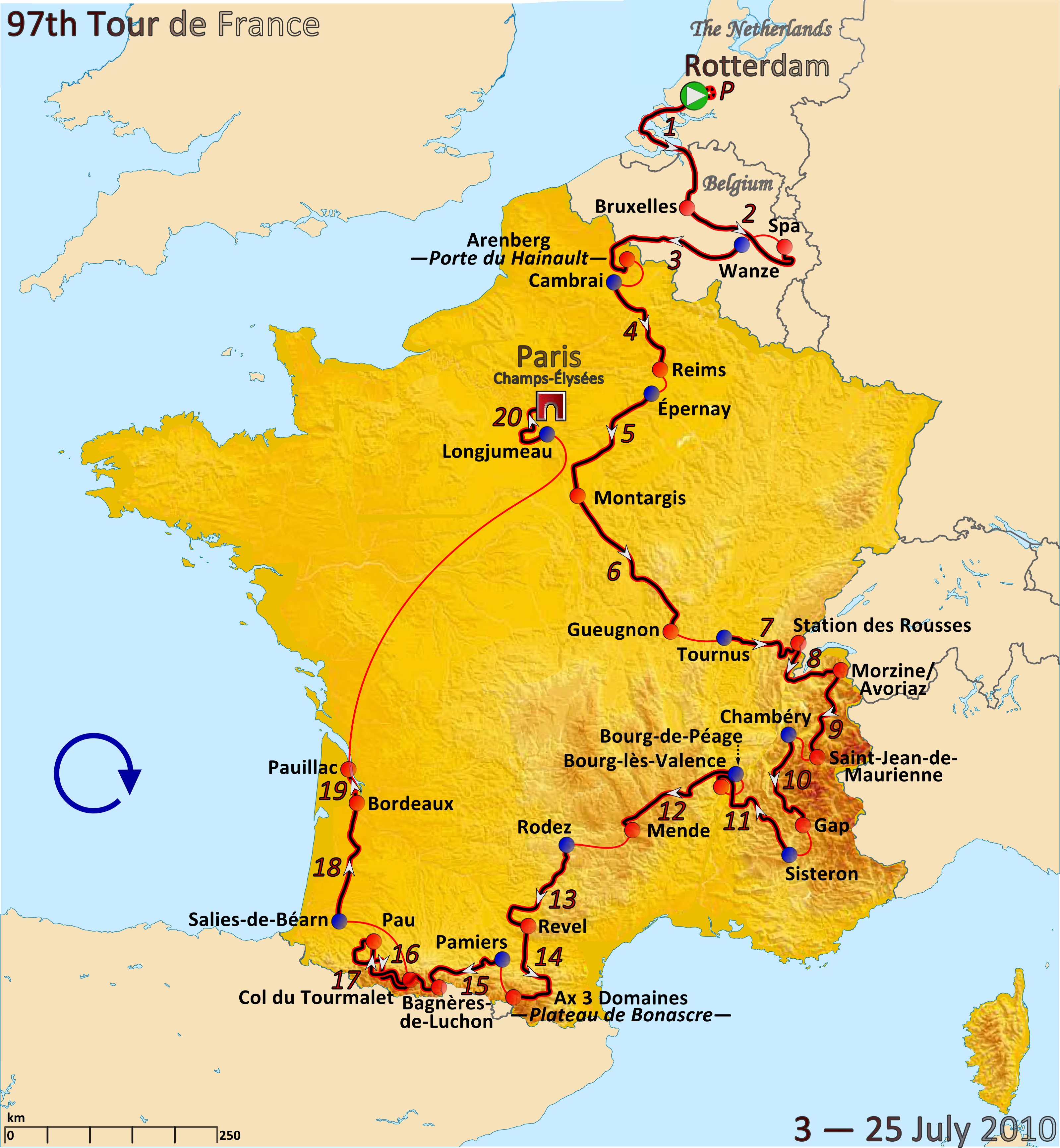 Map of the 2010 Tour de France created in Inkscape